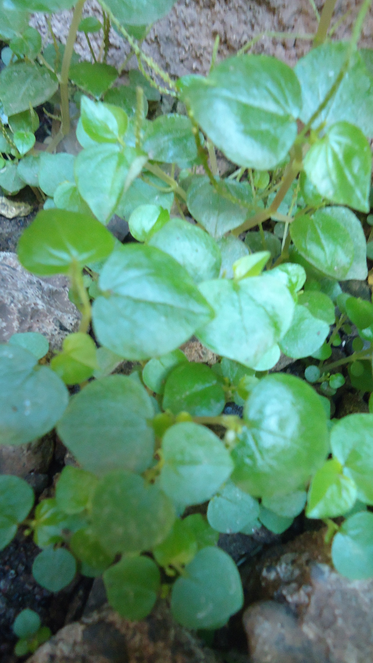 Peperomia pellucida, Pepper Elder, locally known as 'sinaw-sinaw' in the Philippines (literally 'shining')